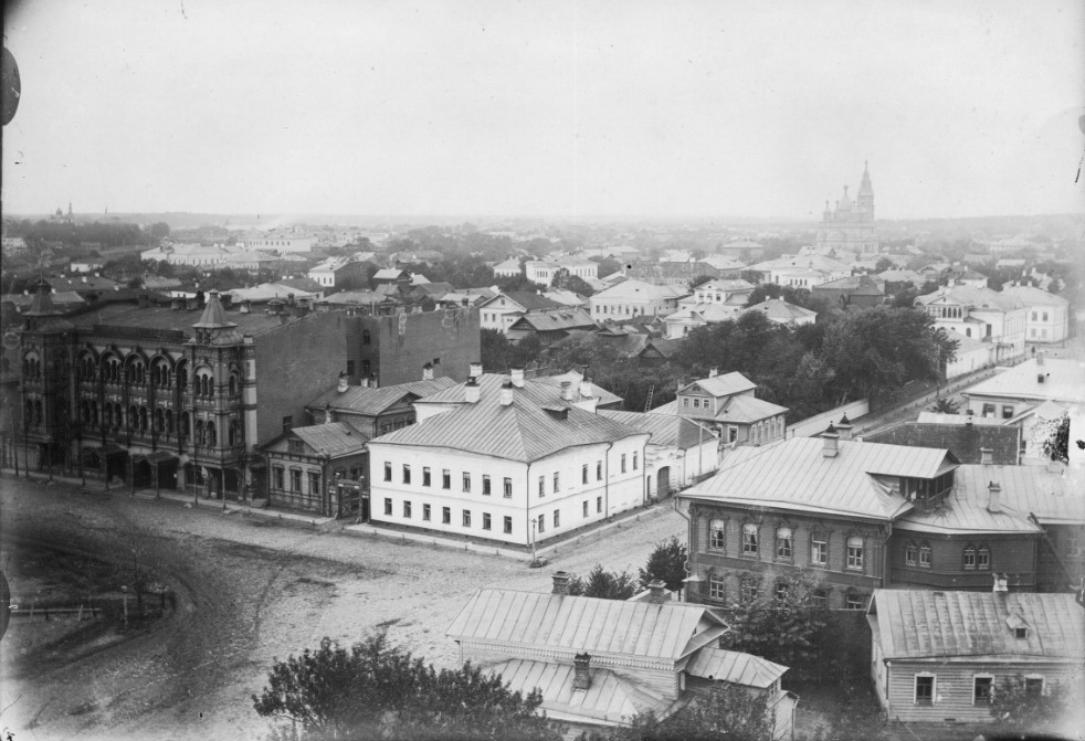 Type of Rybinsk with Fire Tower.